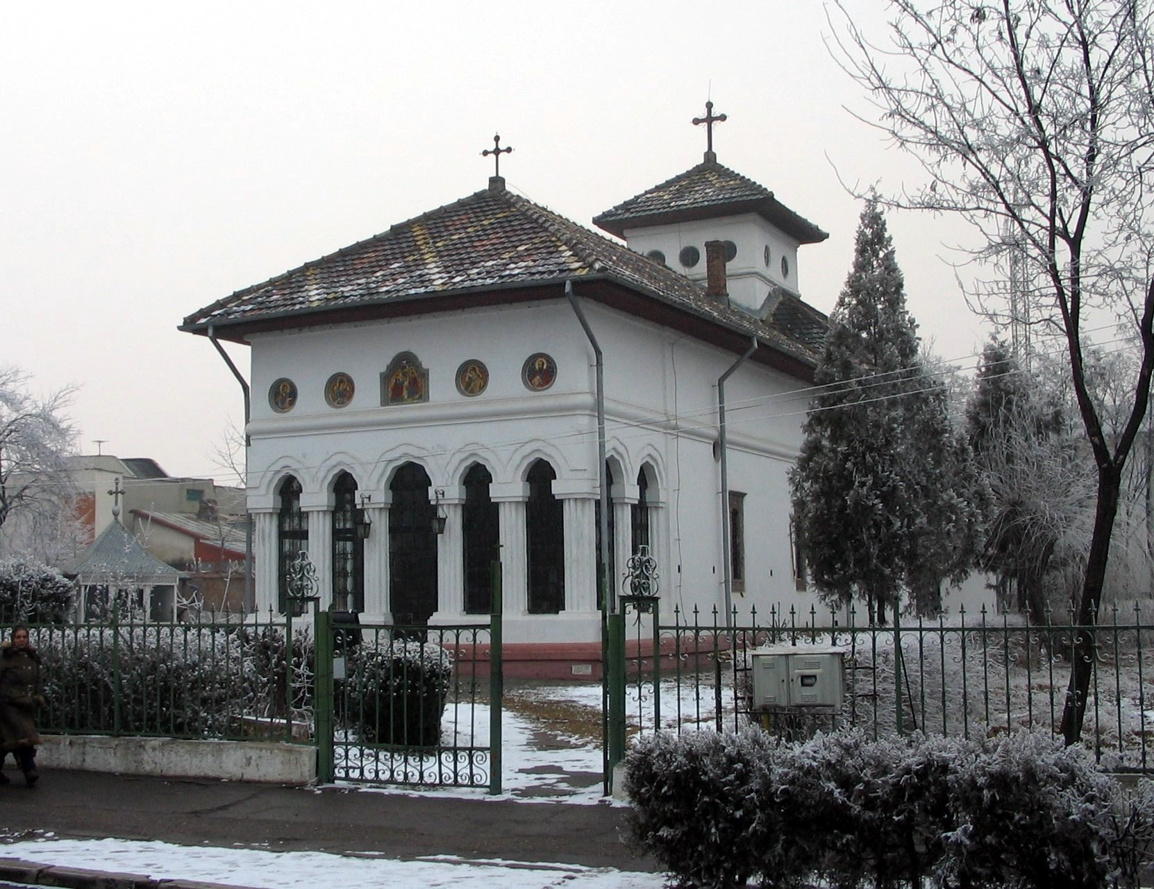 The Church of Banului